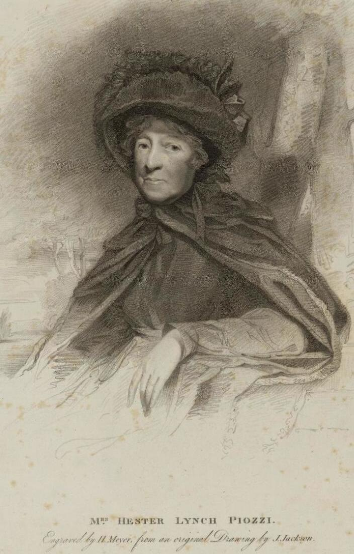 A portrait from the Welsh Portrait Collection at the National Library of Wales. Depicted person: Hester Thrale – Welsh author and salon-holder